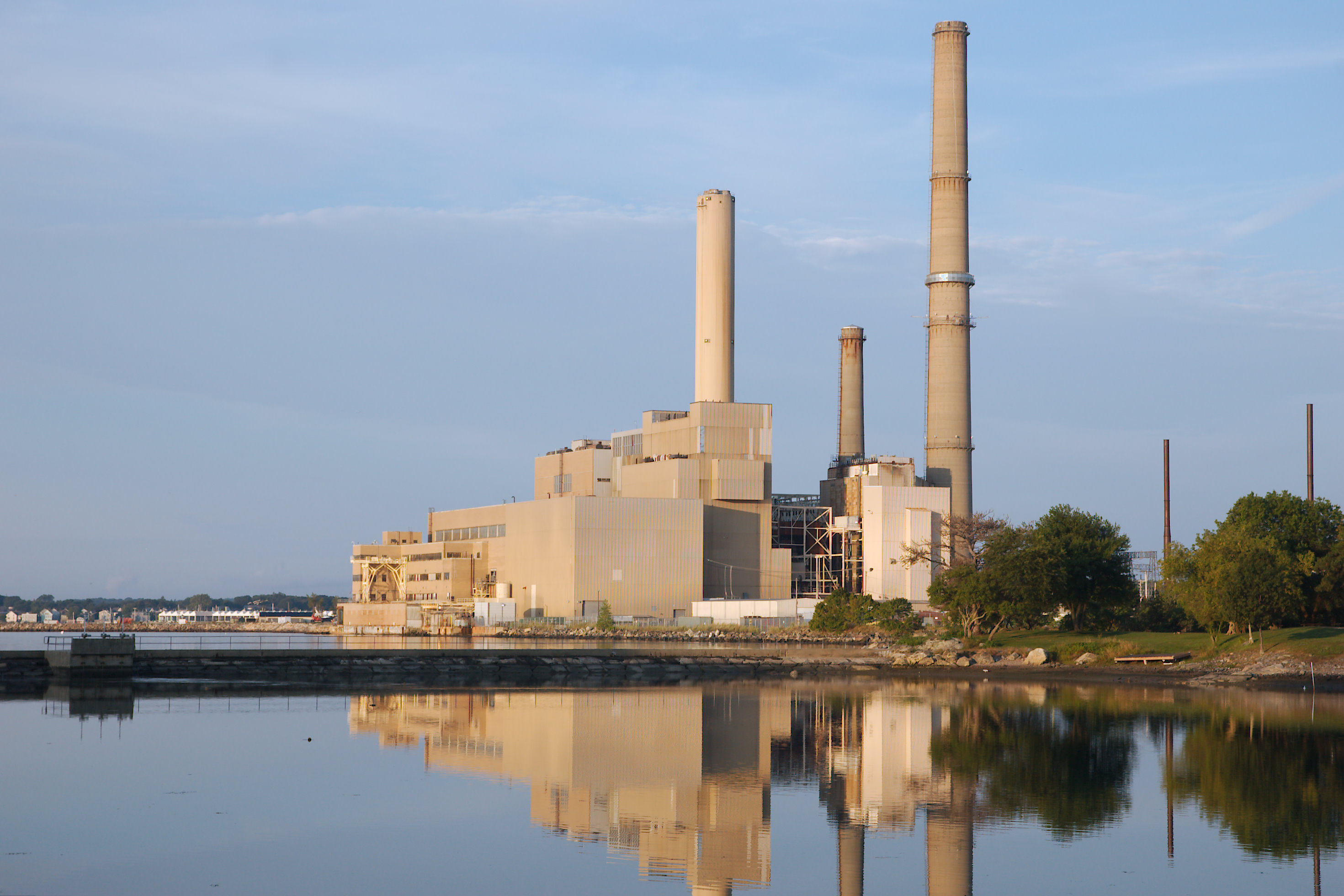 Salem Harbor Station, a coal and oil power plant in Salem, Massachusetts. Operating since 1951 and As of 2015, the stack were destroyed and the harbor no longer looks like this.